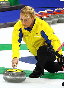 Anna Le Moine; 2010 Vancouver Olympic Games - Women's Curling - Preliminary from Vancouver Olympic Centre